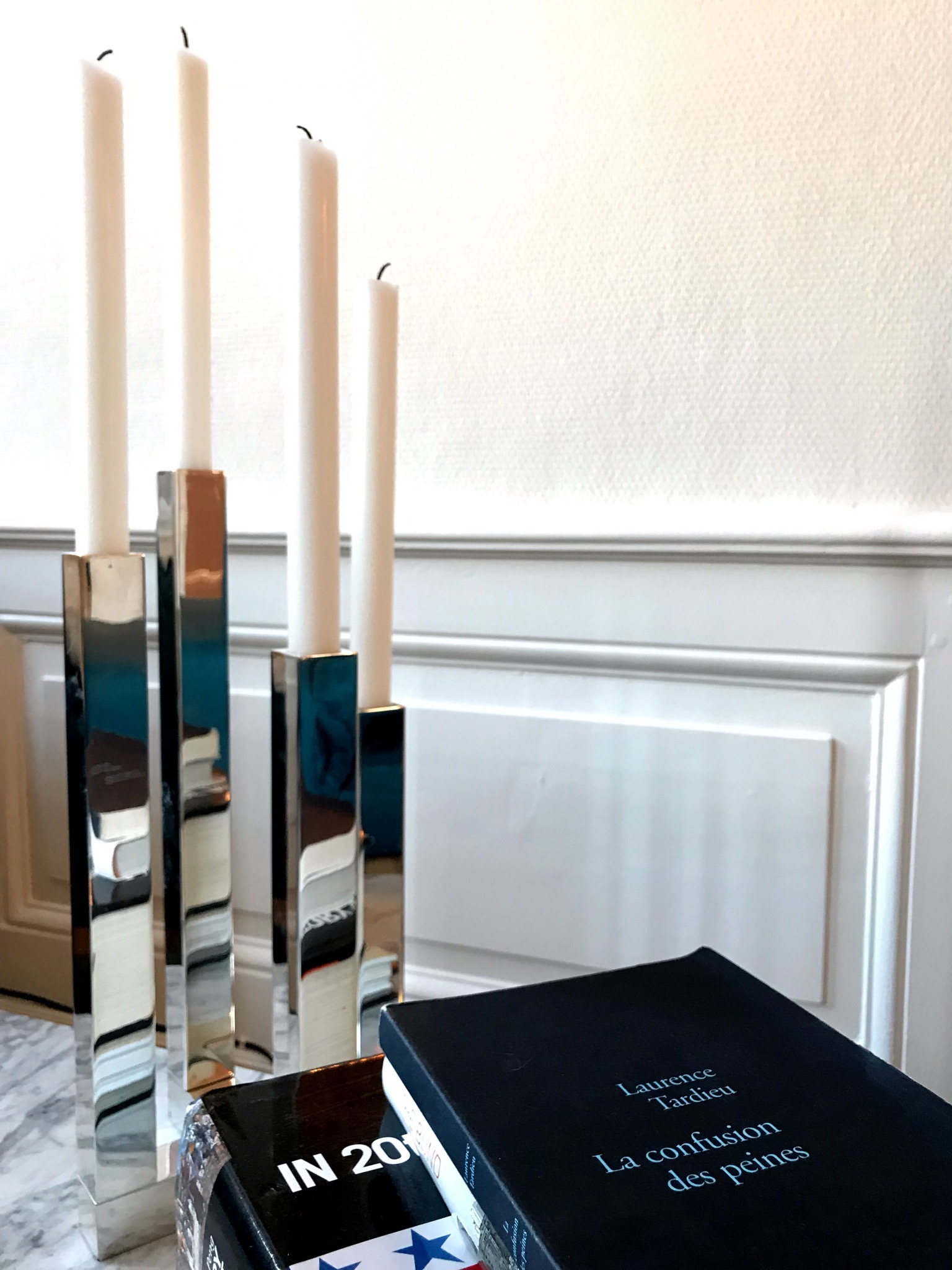 Picture in my living room of the Book of Laurence Tardieu - La confusion des peines